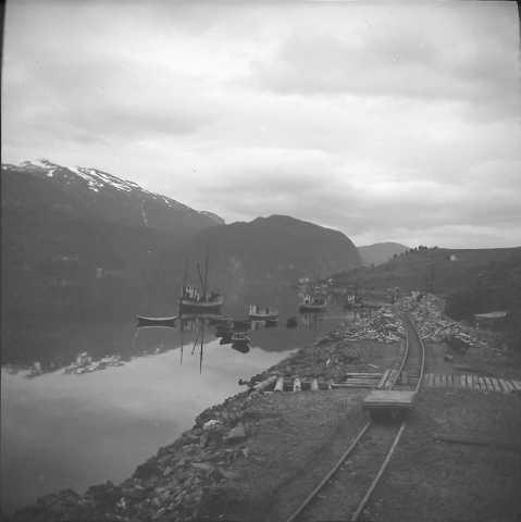 Polar Line at Kobbelvvågen on Leirfjorden, Norway